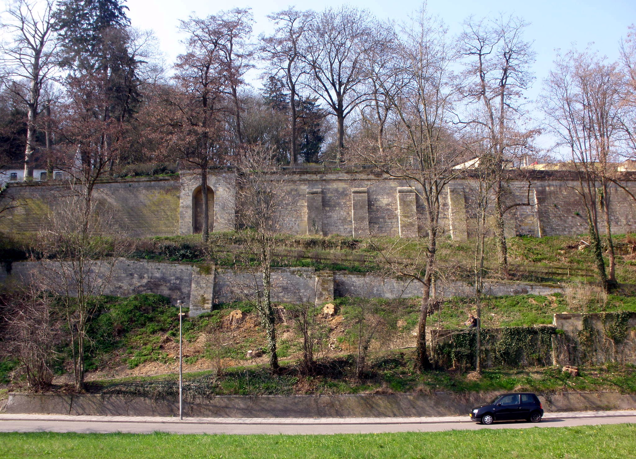 Maastricht, the Netherlands. Road to Slavante, a steep road climbing up from the Meuse valley to the Plateau of Sint-Pietersberg, South of the village of Sint Pieter (Maastricht).